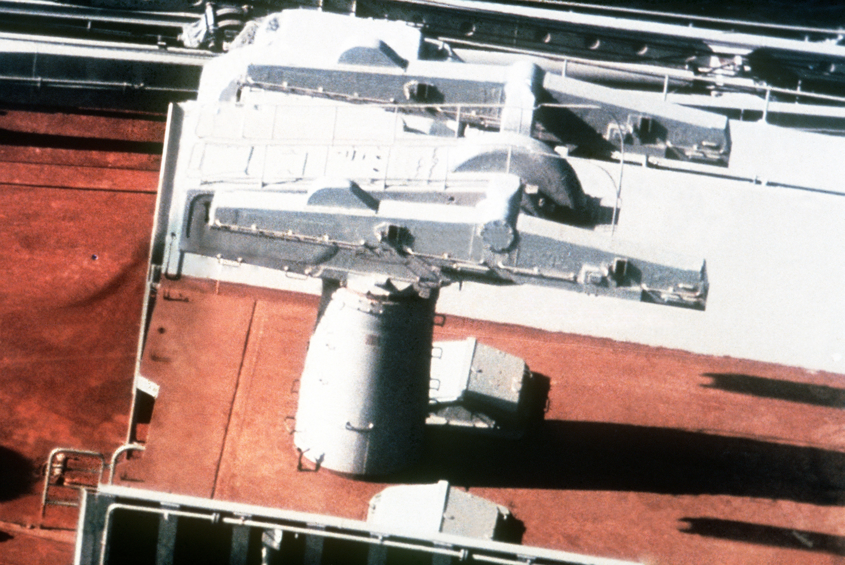 A view of a twin arm SA-N-3 missile launcher aboard the Soviet aircraft carrier KIEV.